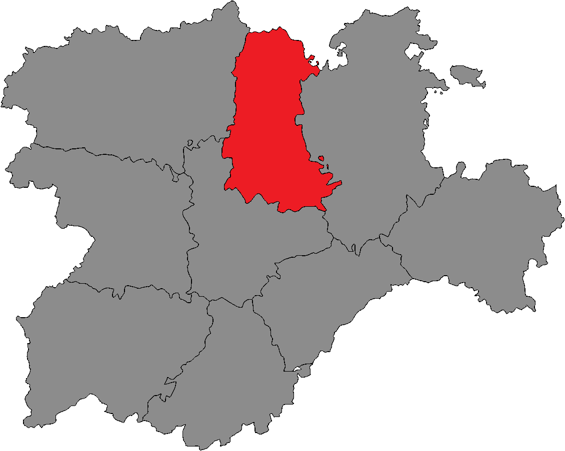 Cortes of Castile and León district of Palencia.